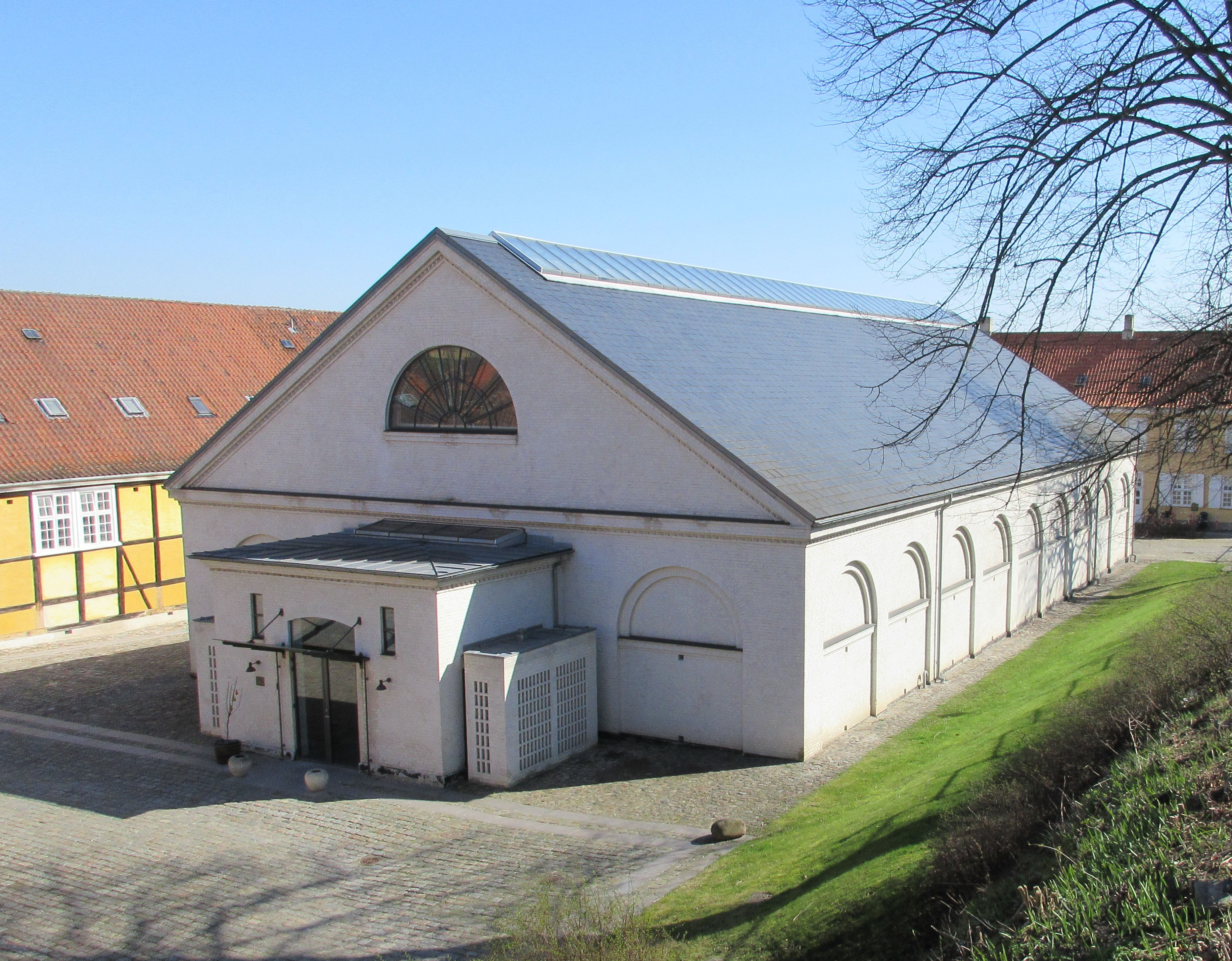 The building surrounded by the three wings of Lakajgården in Frederiksberg, Denmark